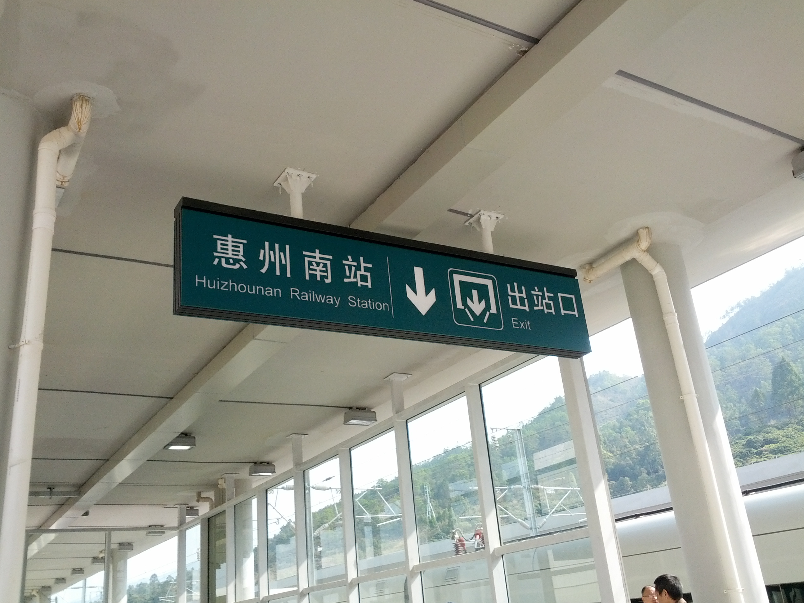 Station sign of Huizhounan railway station中文（中国大陆）: 惠州南站标识牌